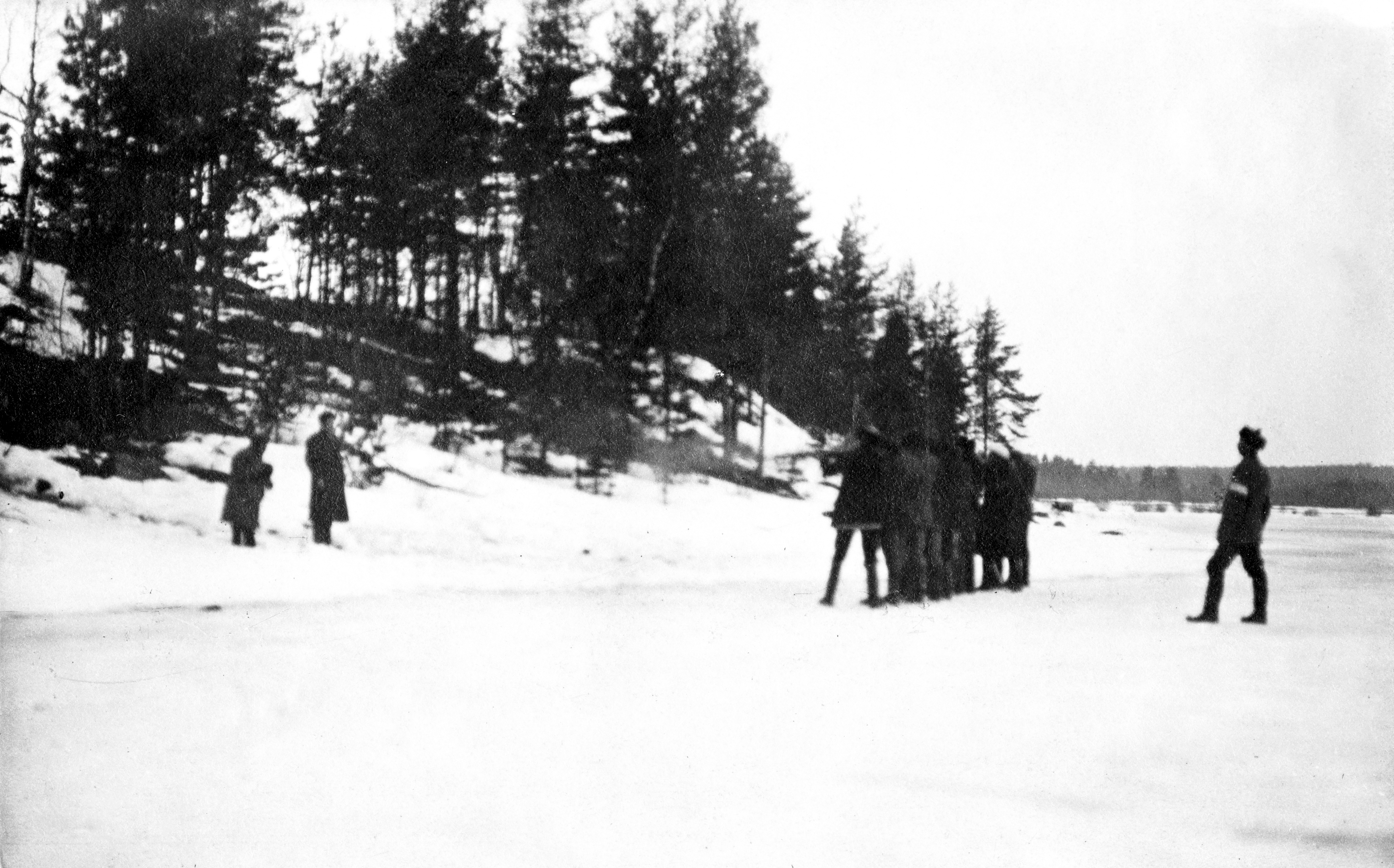 Two Red Guards are executed at Kiviniemi, the Karelian Isthmus, on 11 April 1918